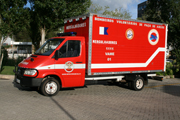 AHBVPA-VAME 01